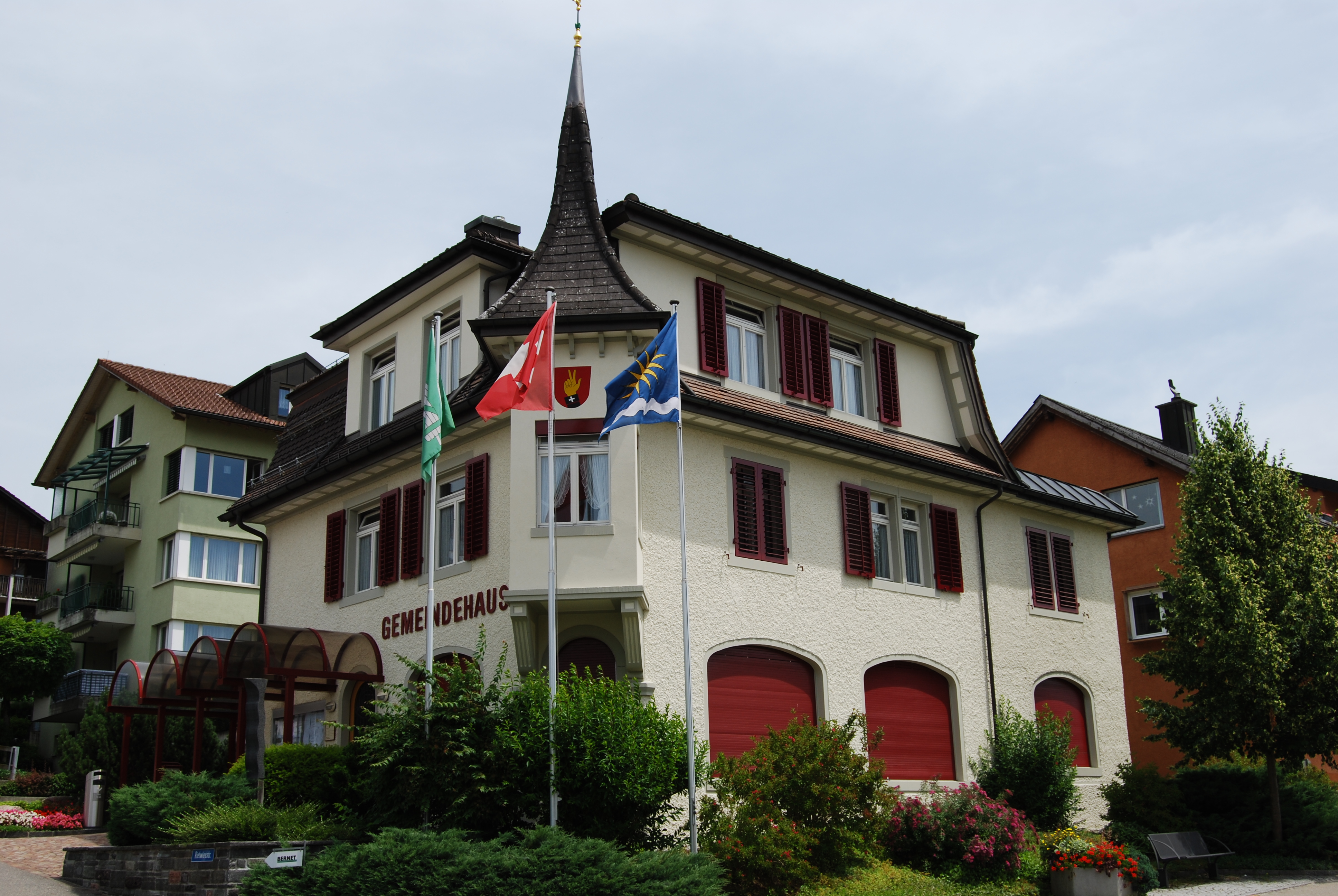 Gommiswald, canton of St. Gallen, SwitzerlandEsperanto: Gommiswald, Kantono Sankt-Galo, Svislando